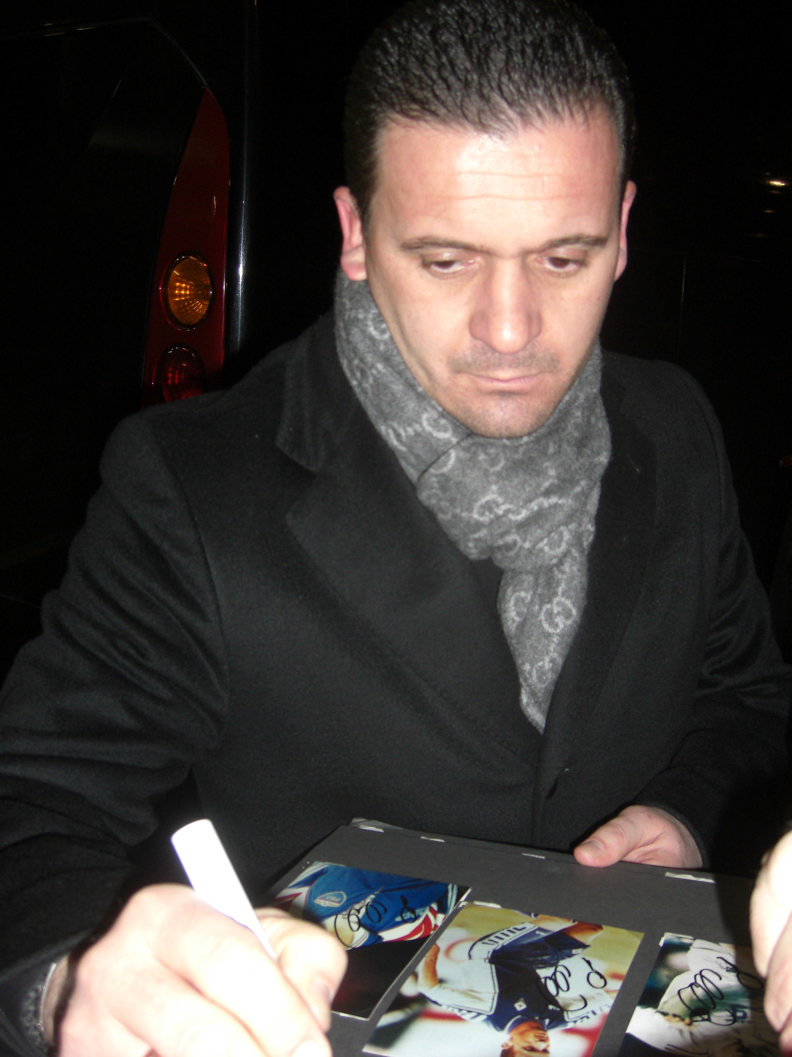 Champions League-Match Werder Bremen - Real Madrid 2:3